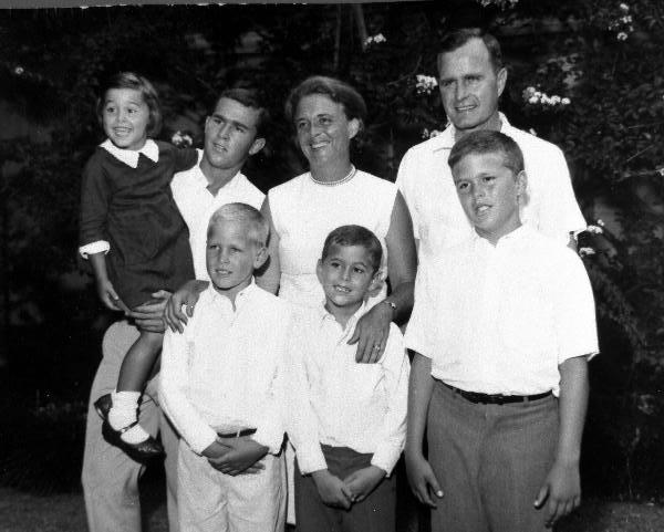 The George H. W. Bush family (l-r front row - Neil Bush, Marvin Bush, Jeb Bush; back row - Doro Bush, George W. Bush, Barbara Bush, George H. W. Bush), early 1960s. Photo Credit: George Bush Presidential Library HS525 (source).